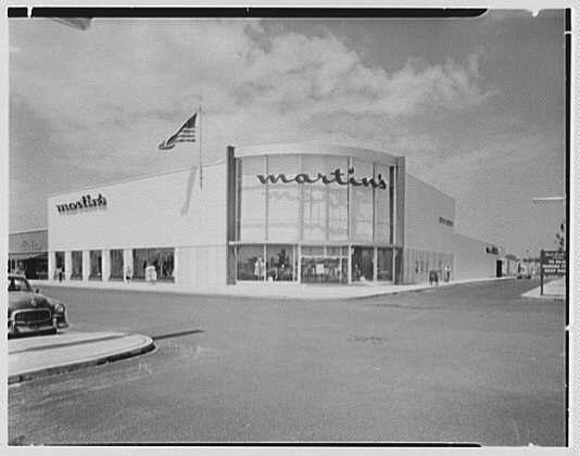 Martin's, business in Babylon, Long Island. General exterior.